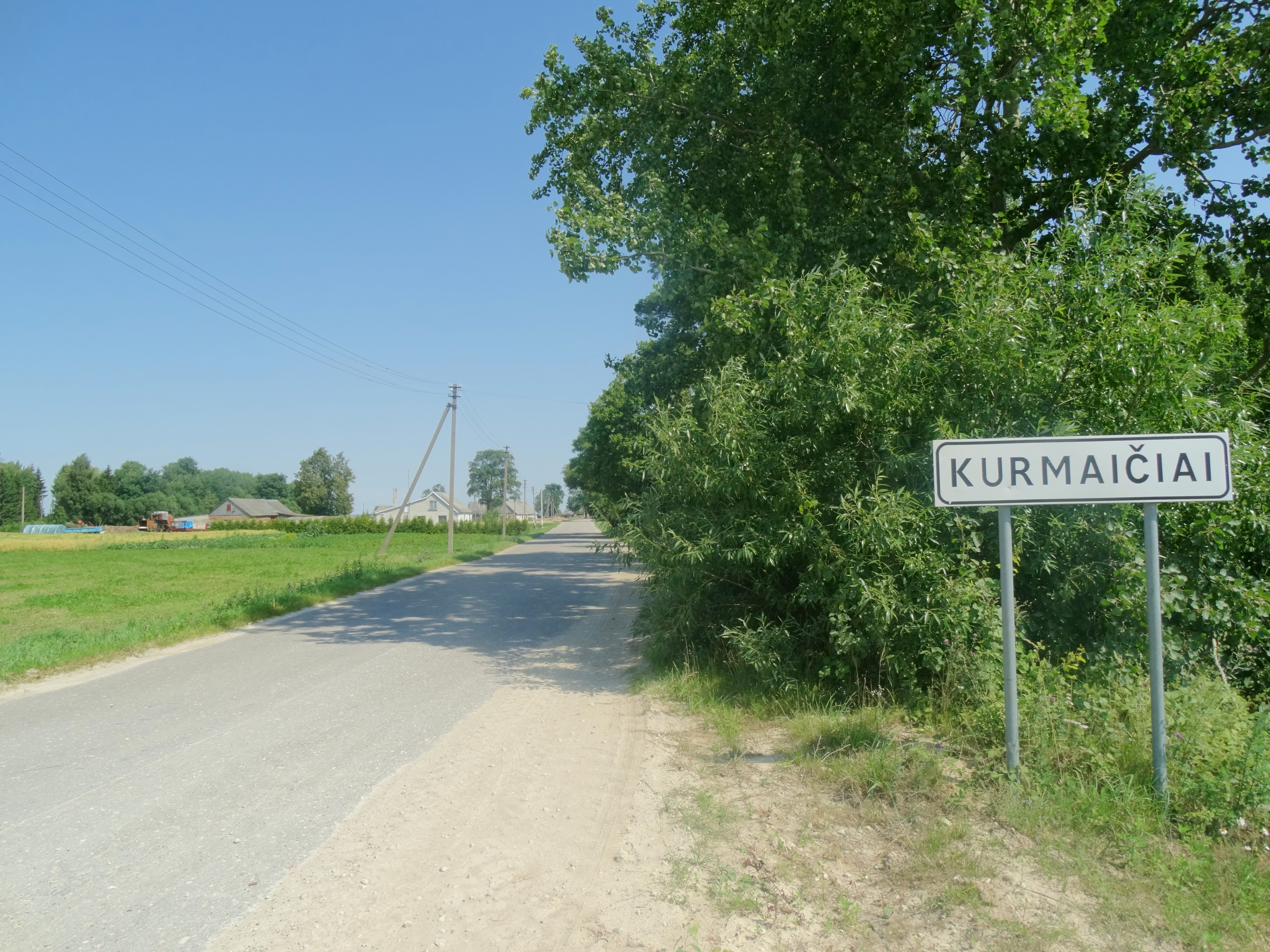 Kurmaičiai, Joniškis District, Lithuania